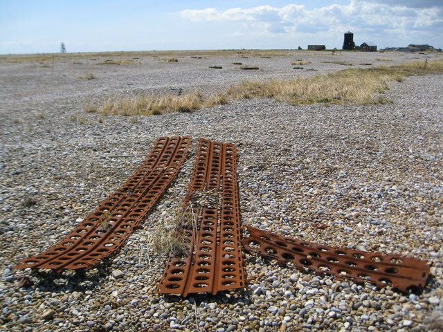 Discarded Perforated Steel Planking Discarded materials have been left to rust on the shingle.